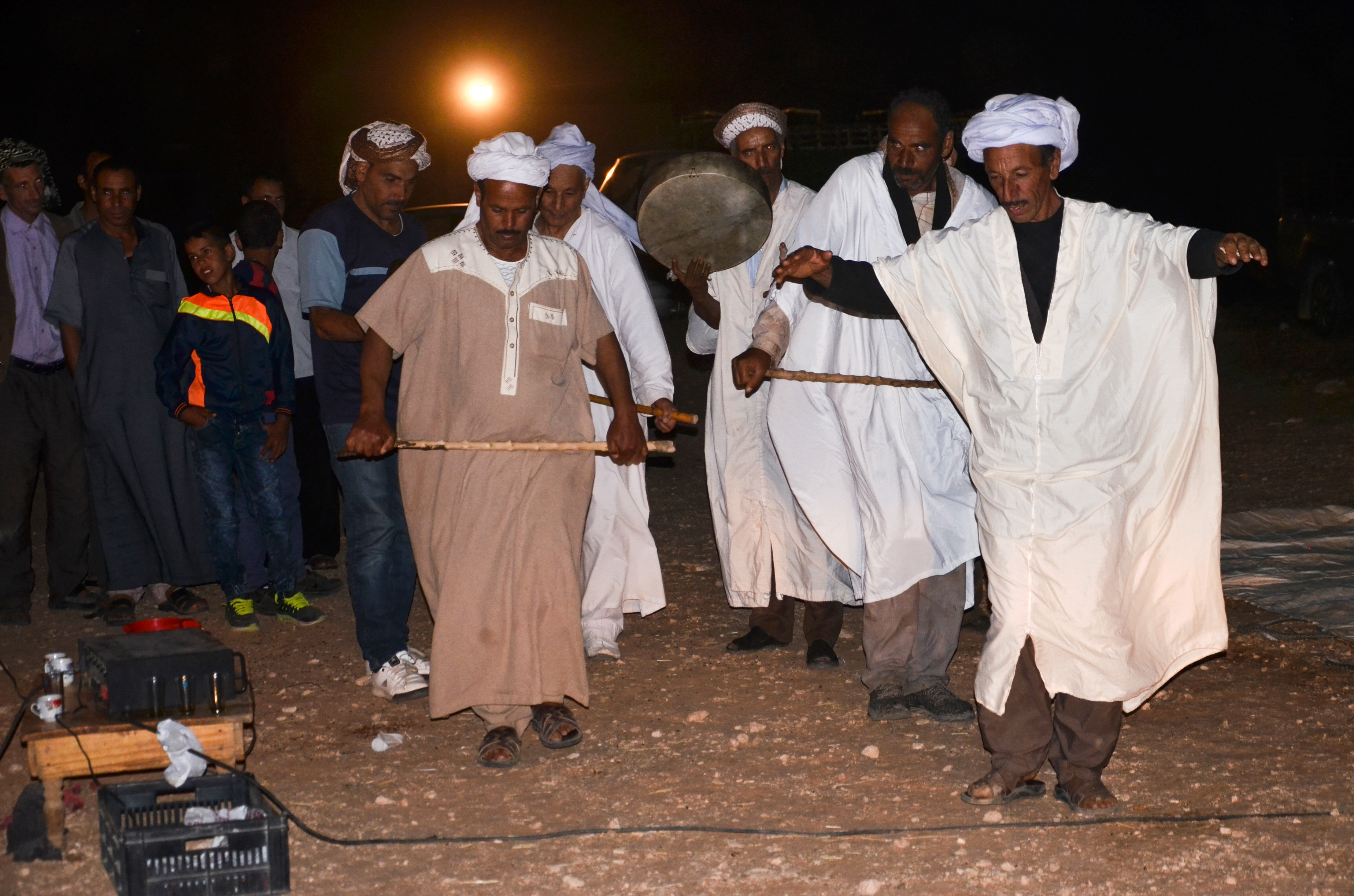 This is an image of "African people at work" from Algeria